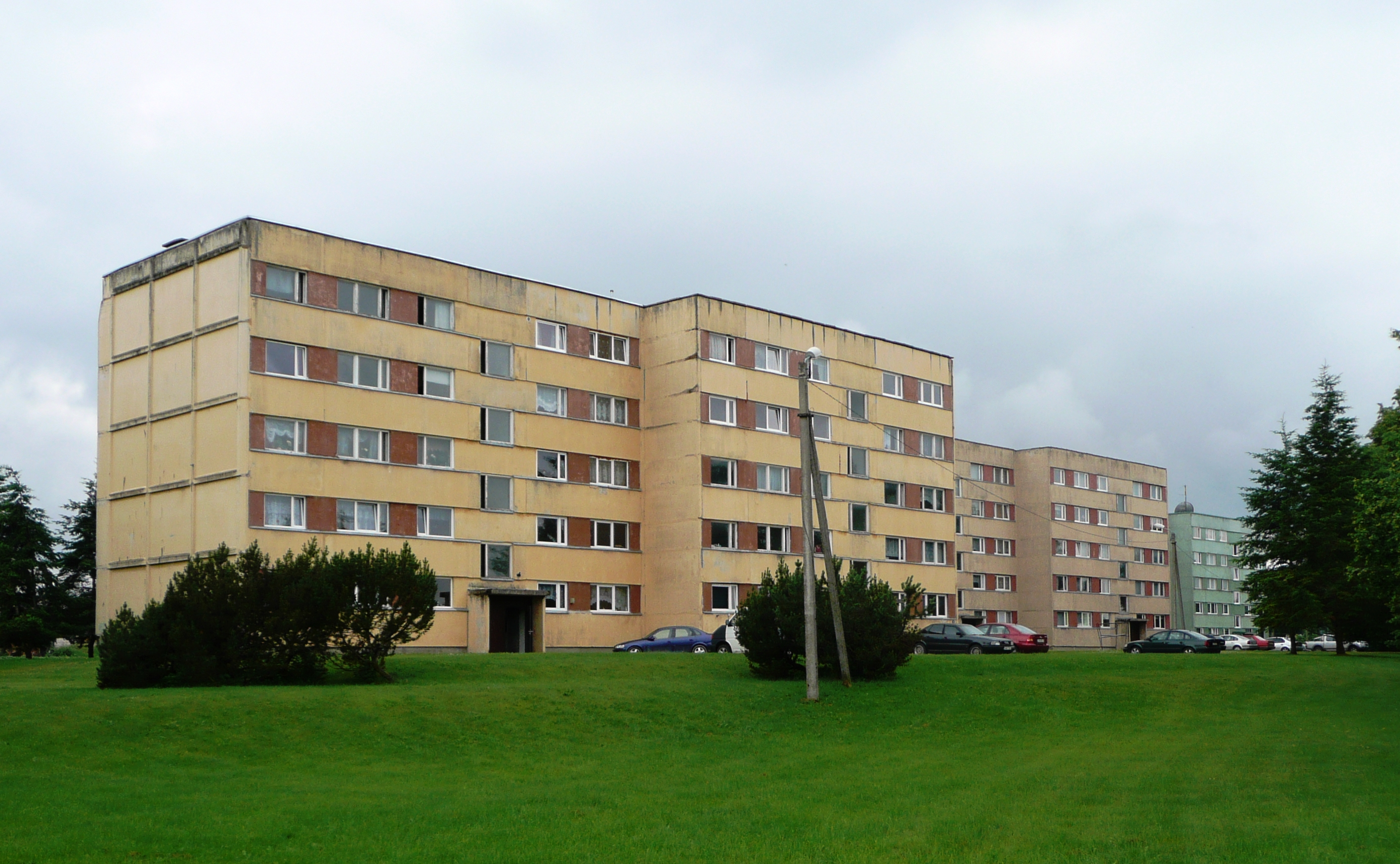 Soviet time apartment buildings in the centre of Rannu borough in Tartu County, Estonia.